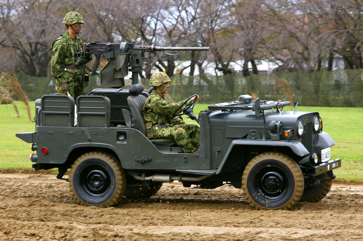 JGSDF Type73 Light Truck,Engineer school unit.Taken by Los688,in Camp Katsuta,Japan,at 25-Oct-2008.PD-self ja:73式小型トラック（旧） 施設学校・施設教導隊 2008年10月25日、勝田駐屯地で撮影。